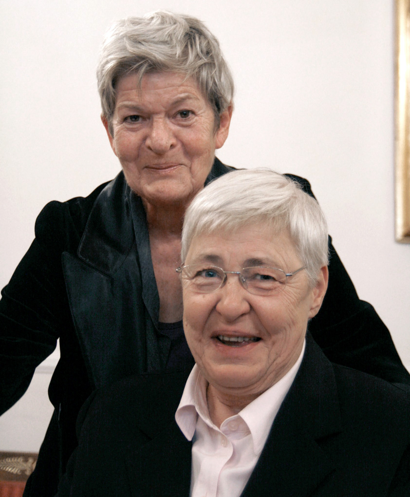 Actress Elisabeth Orth (standing) and former politician Johanna Dohnal from Austria.